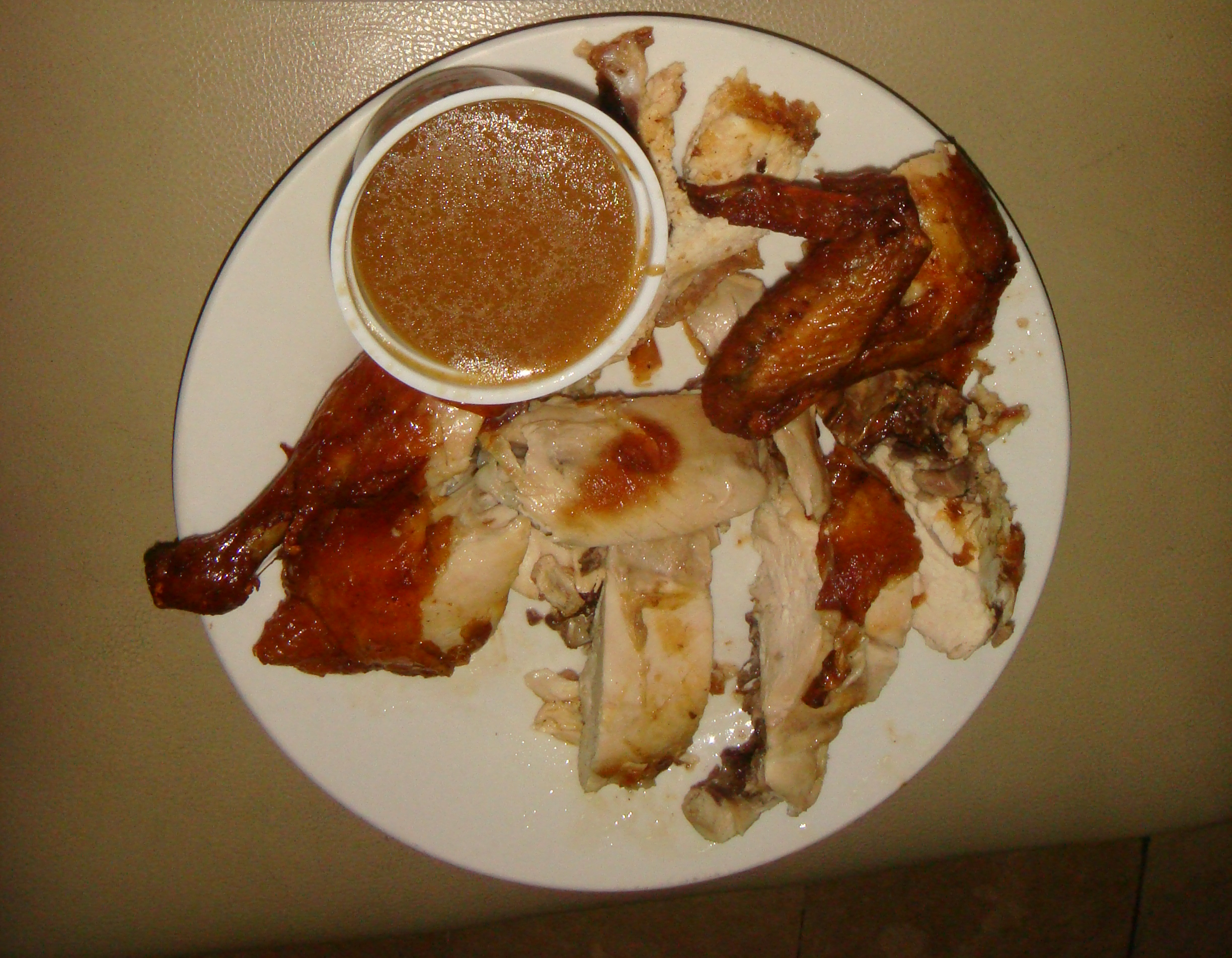 Savory Restaurant fried chicken